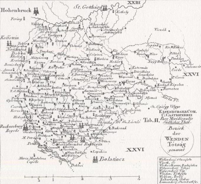 The map of the Tótság (slov. Slovenska okroglina) in Hungary, now the Prekmurje in Slovenia.